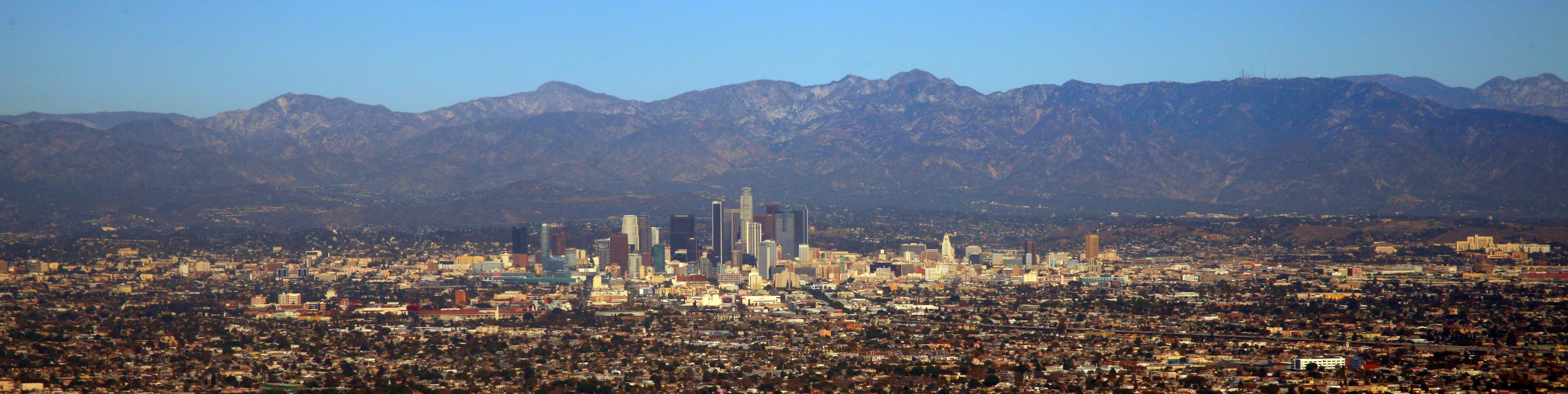 Downtown Los Angeles, shot on approach to LAX from EWR (Newark).